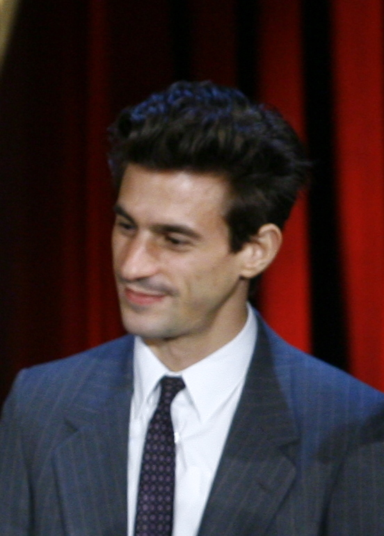 PHOTO CREDIT: ANDERS KRUSBERG / PEABODY AWARDS Curt Ellis, Aaron Wolf, Ian Cheney, Sam Cullman and Jeffrey K. Miller 69th Annual Peabody Awards Luncheon Waldorf=Astoria Hotel New York, NY USA May 17, 2010